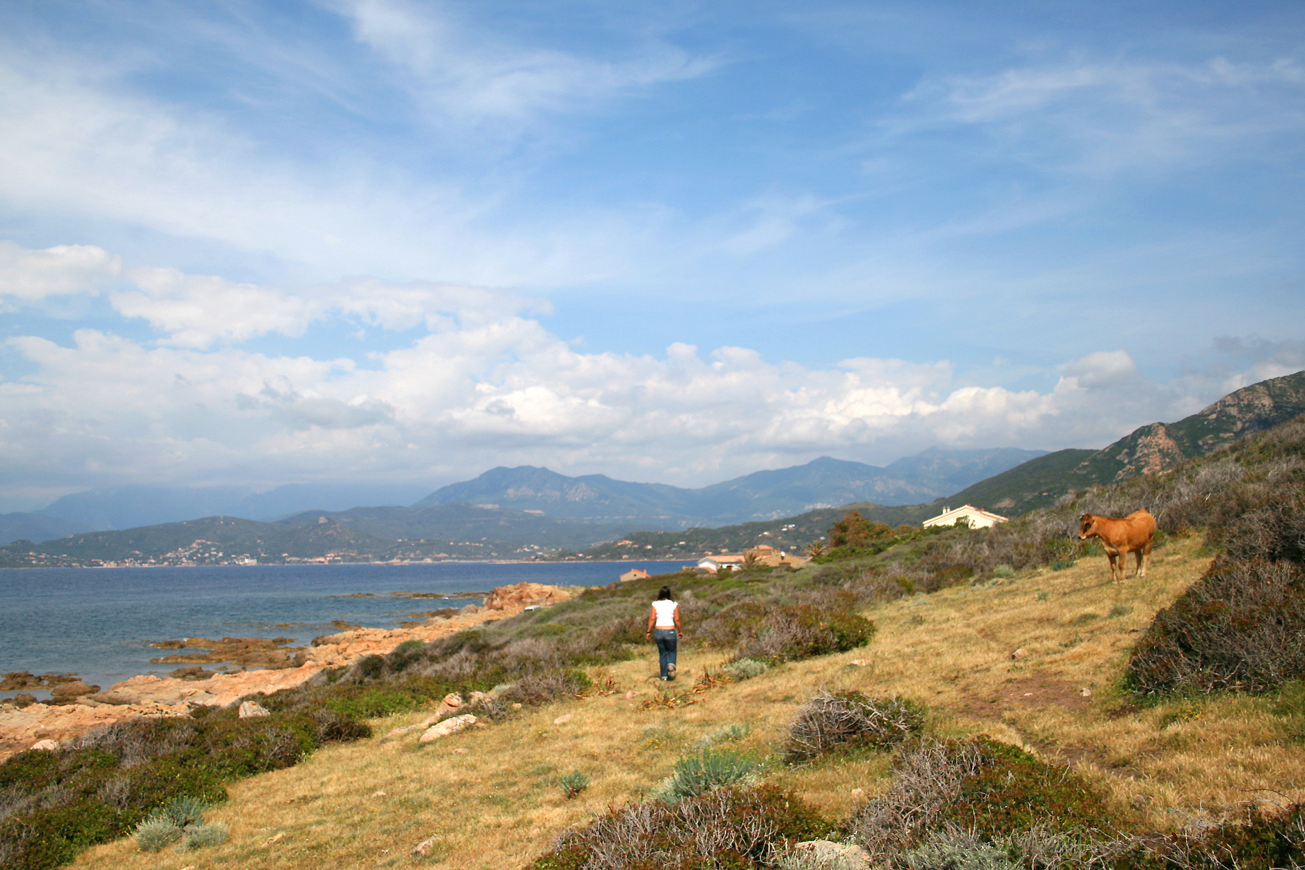 Calcatoggio France - (Corse du Sud), the Gulf of the Liscia. Walon: Calcatoggio France - (Corse do Sud), li Golf dol Liscia.